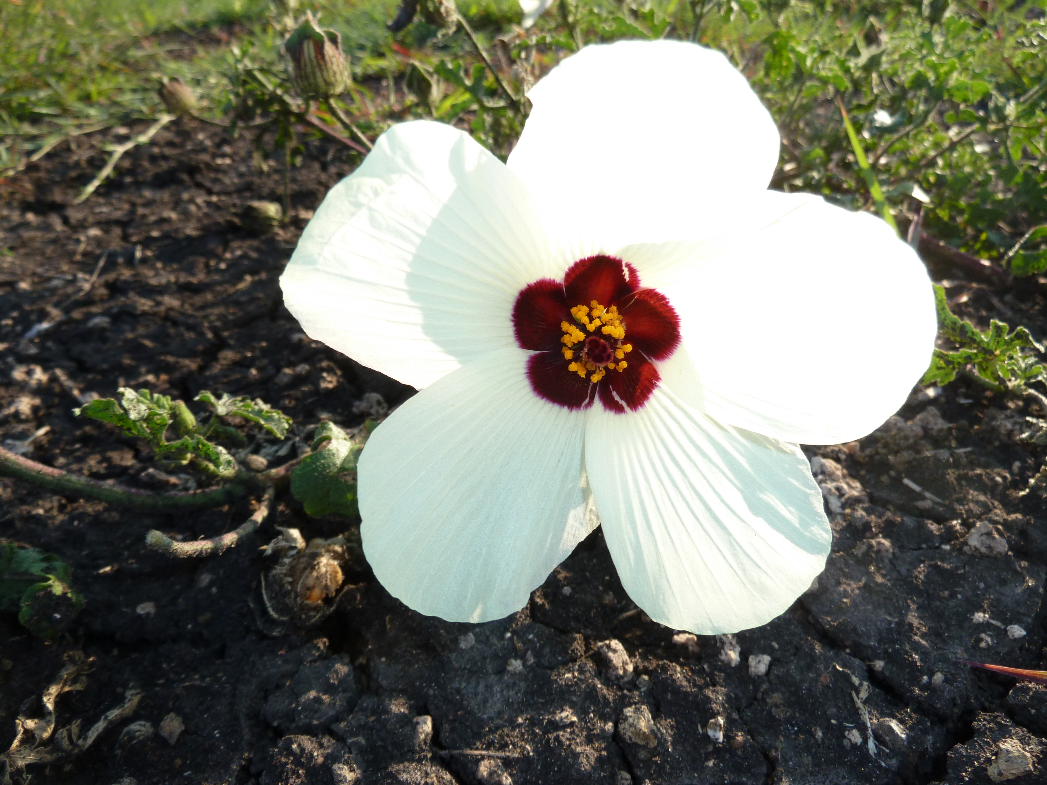 Bladder hibiscus, a common pioneer plant on black turf soil (vertisols) on the verges of croplands in the Springbok Flats, South Africa